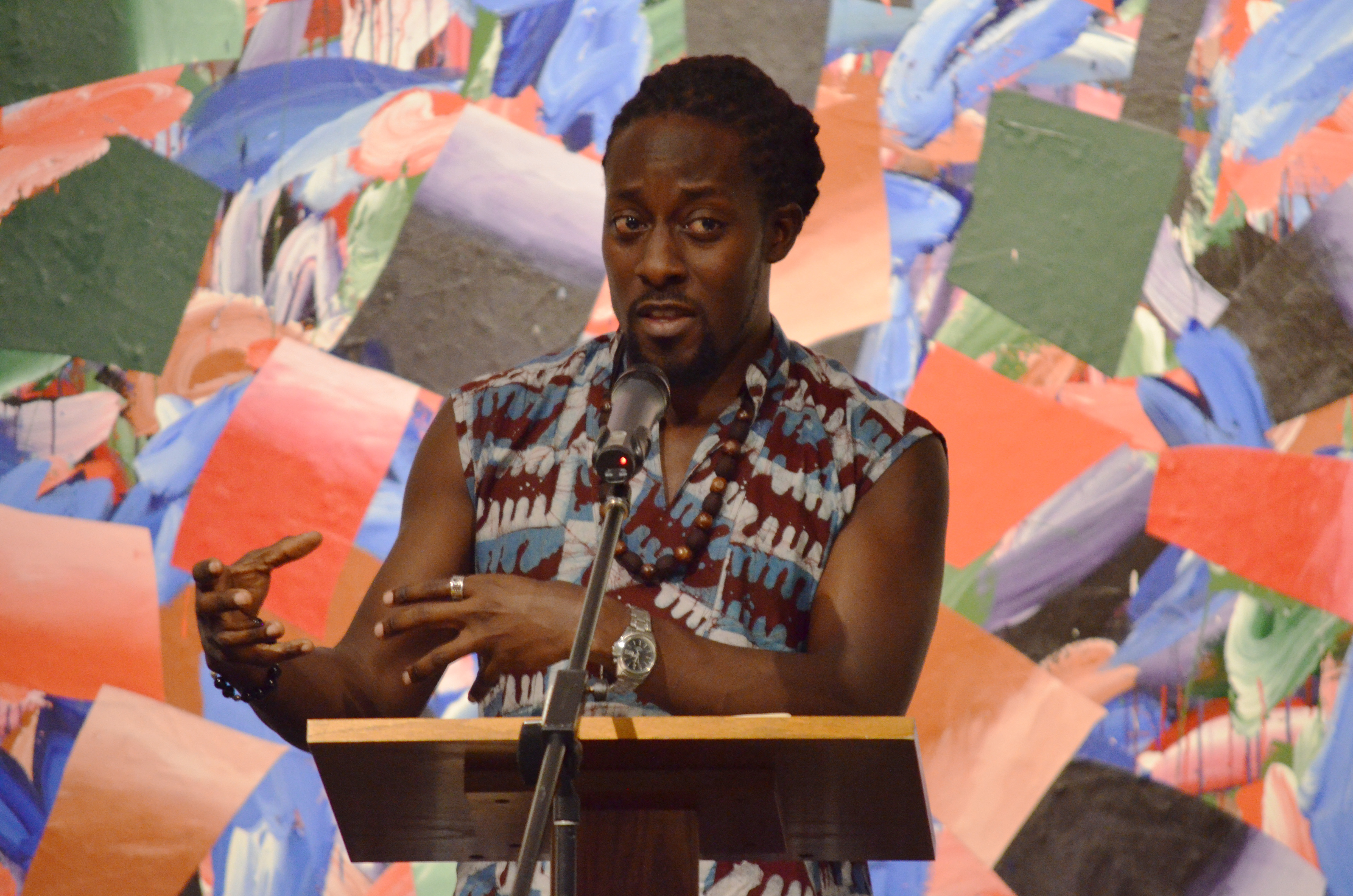 Author and poet Nii Ayikwei Parkes reading at the Neustadt Festival opening night. Poets Amit Majmudar, Valzhyna Mort, Nii Ayikwei Parkes, and Wang Ping opened the night, and then novelists Padma Viswanathan and Alison Anderson followed. Oklahoma writers Nathan Brown and Rilla Askew introduced the readers. The reception was in the Sandy Bell Gallery at the Fred Jones Jr. Museum of Art. Photo by Tyler Christian.